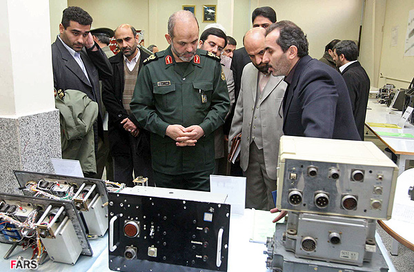 Iranian Toophan guidance units